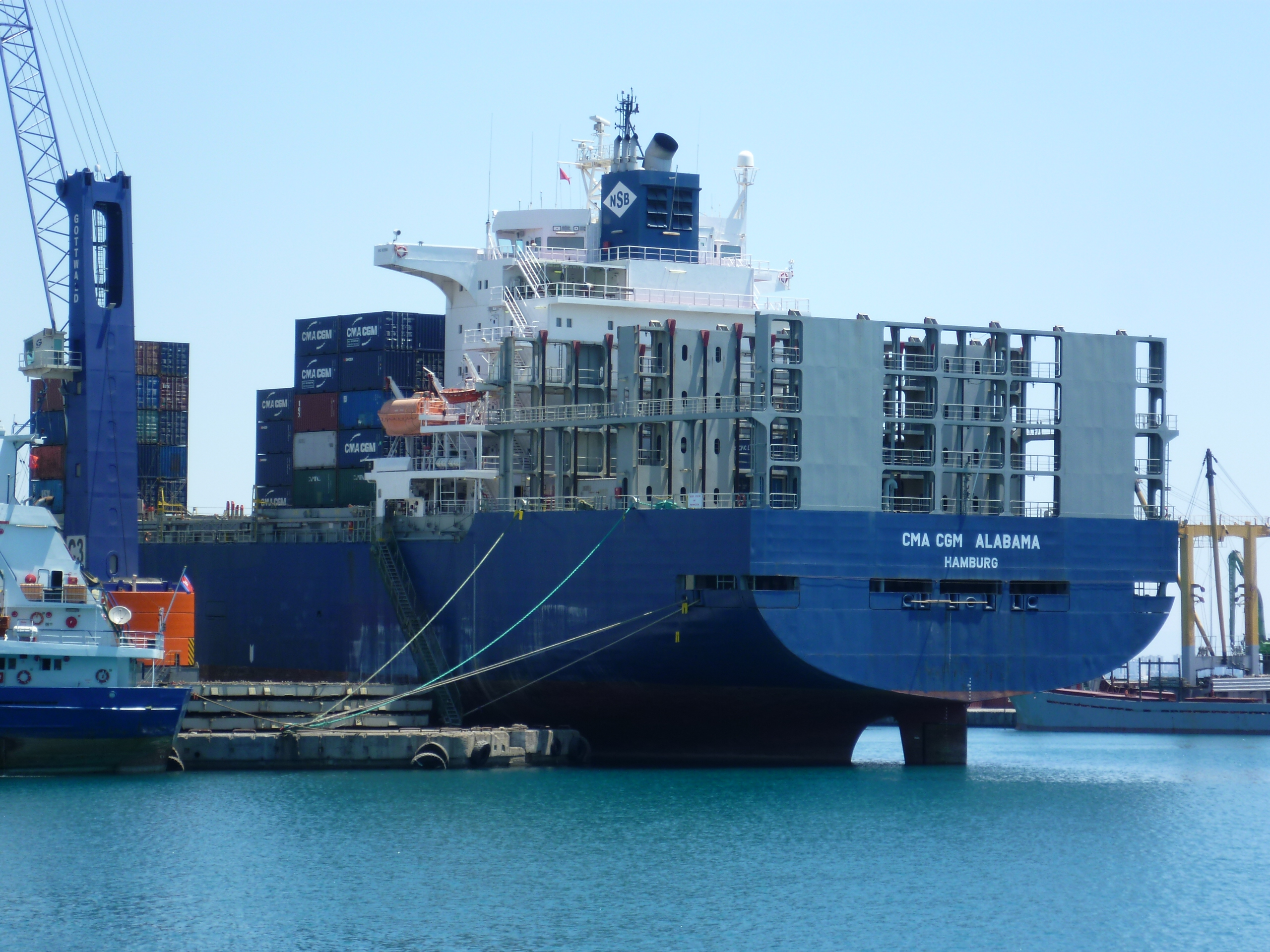 Container vessel CMA CGM Alabama in the port of Antalya, 11 July 2011